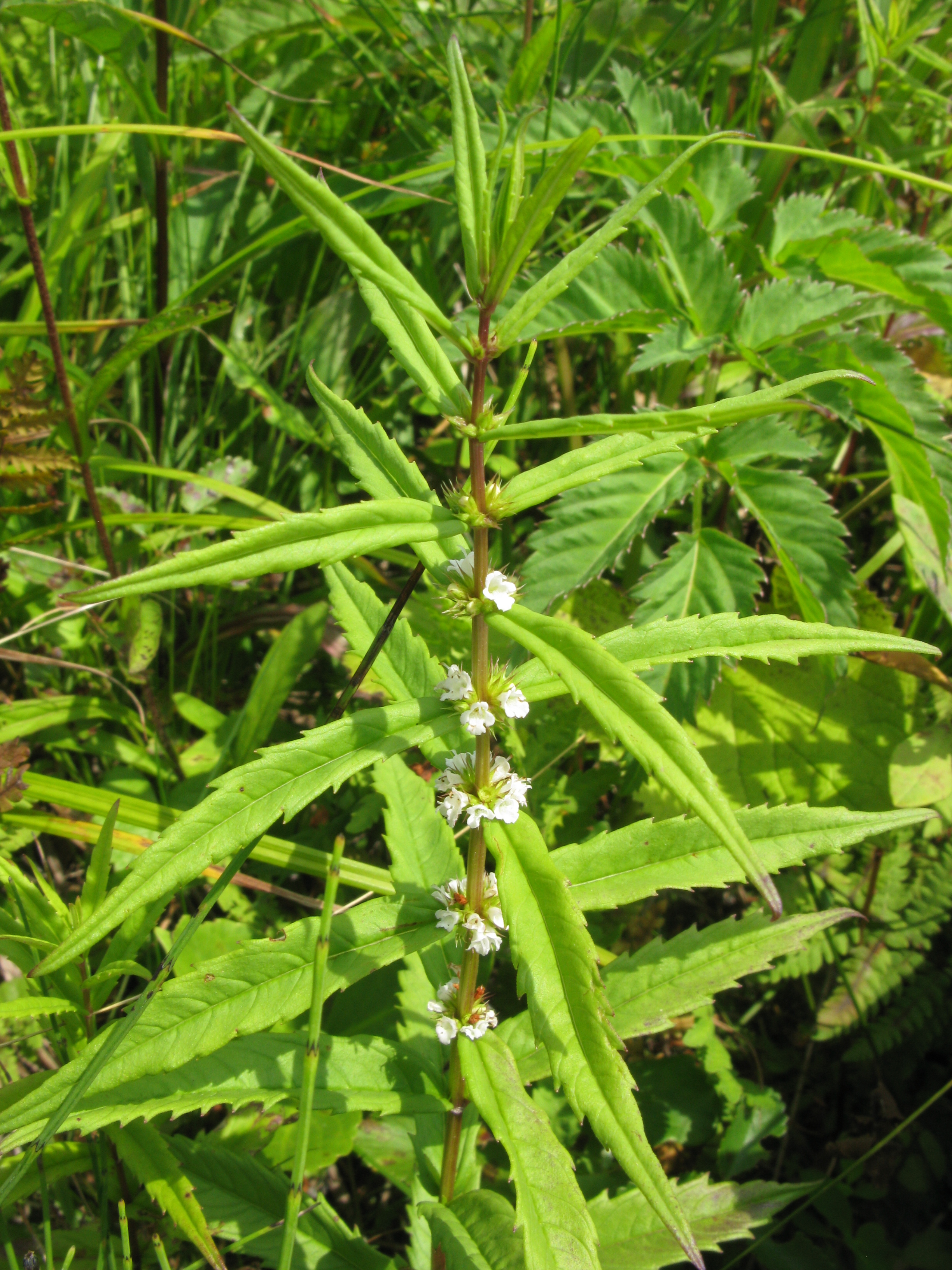 Lycopus maackianus, Oze, Fukushima pref., Japan